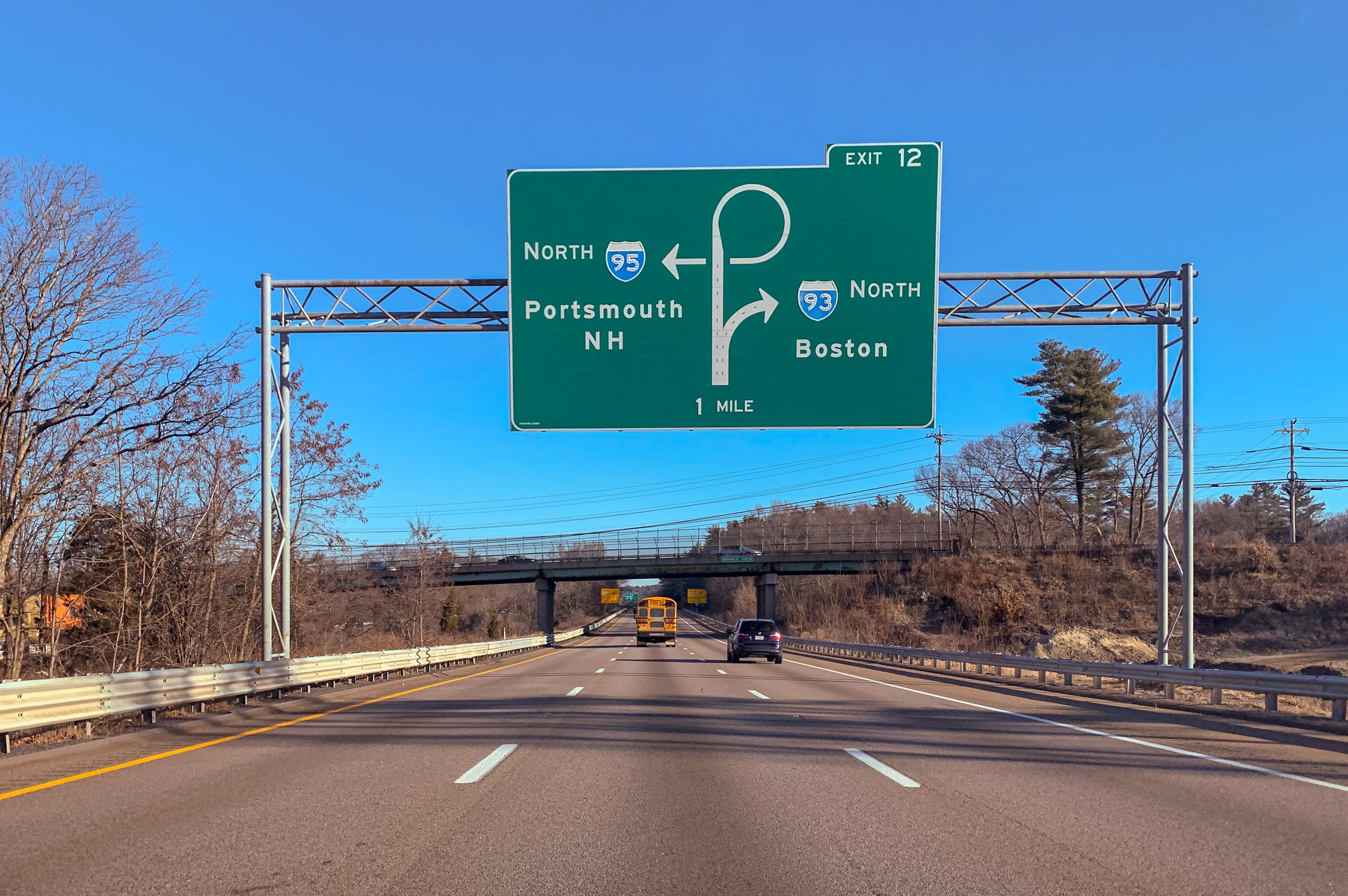 Massachusetts Interstate 93 branches off from northbound Interstate 95 at Exit 12 in Canton, Massachusetts.